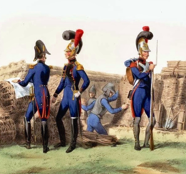 Cropped version of File:Sapeurs du génie de la Garde impériale, 1810.jpg